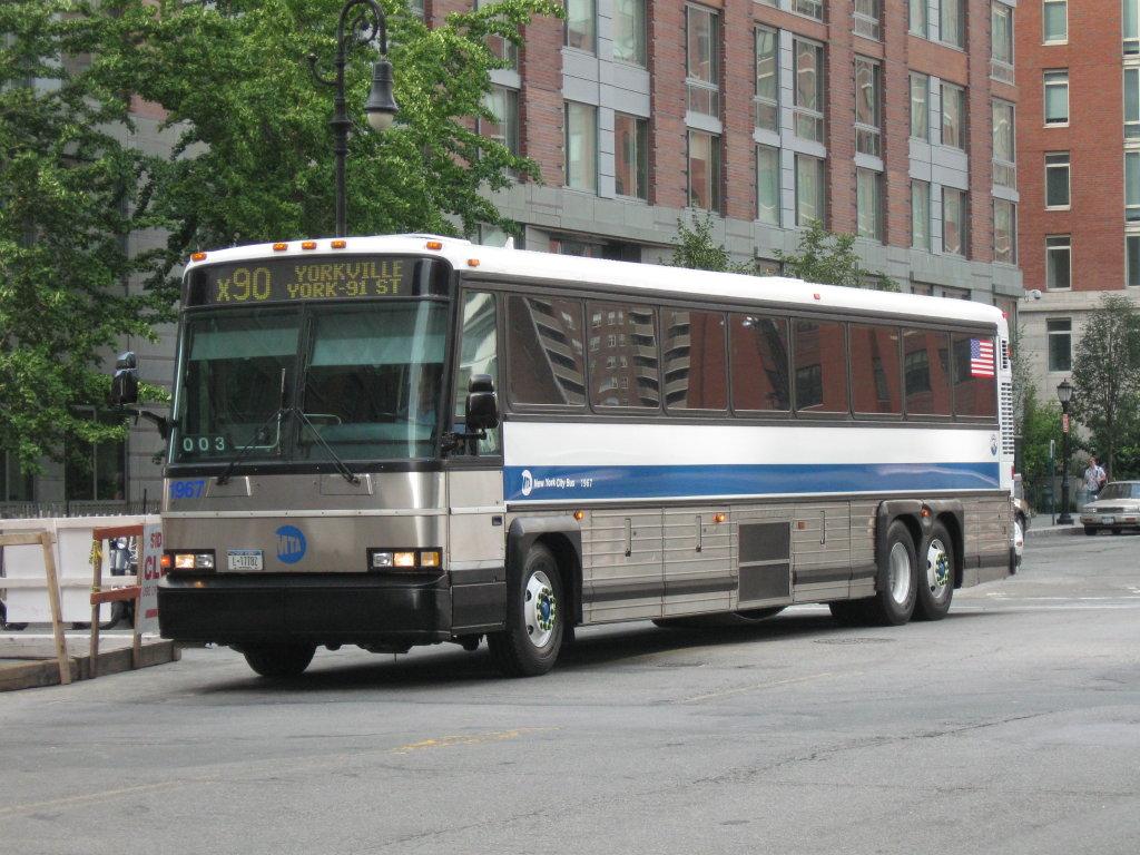 NYC Transit Authority #1967 begins a trip on the X90 from Battery Park City